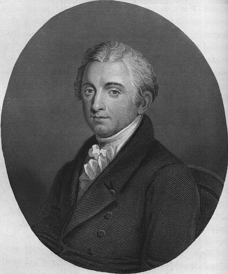 Gouverneur Morris Gouverneur Morris Member of the Federal Convention of 1787. Engraver: J. Rogers.